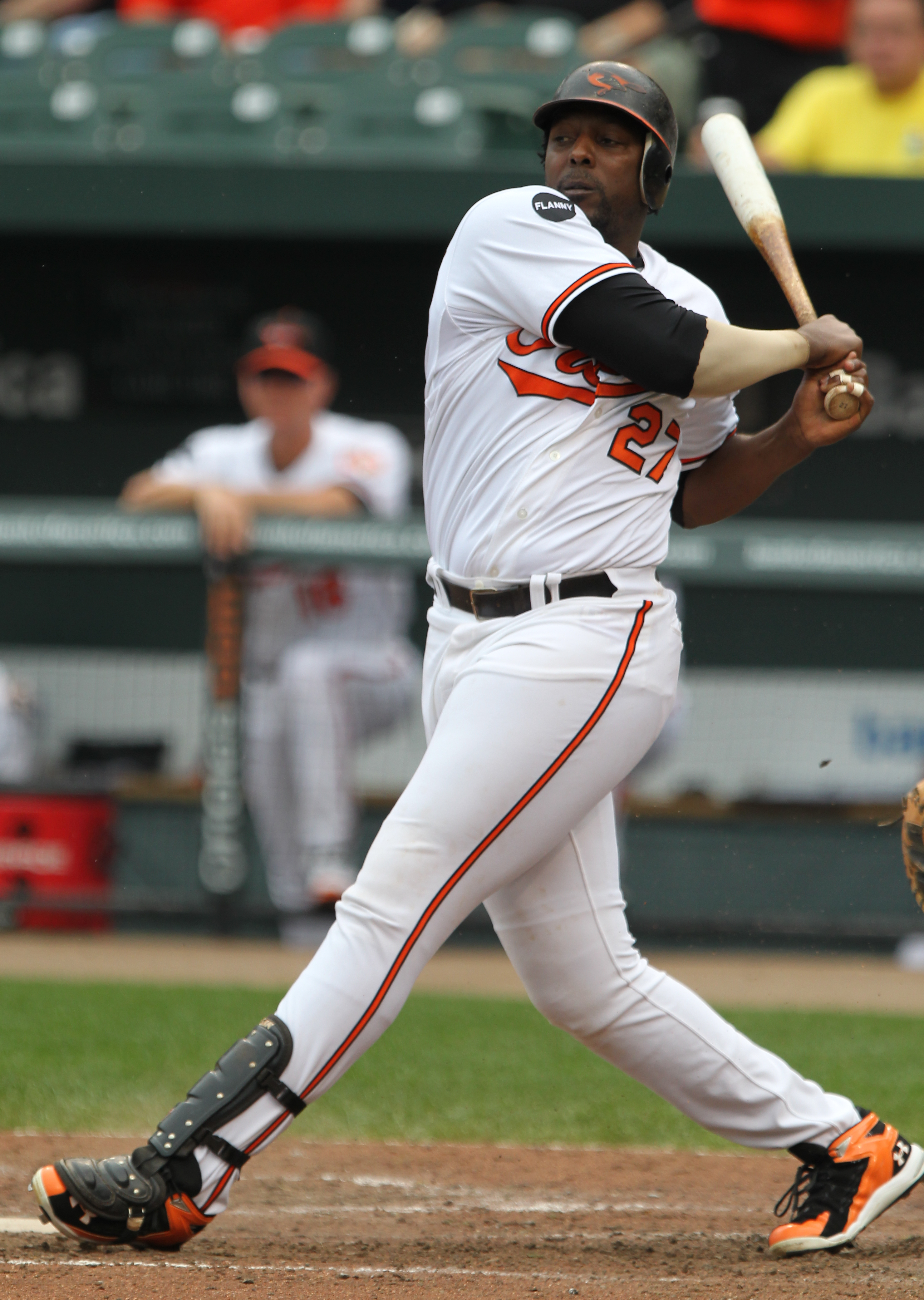 Blue Jays at Orioles September 1, 2011